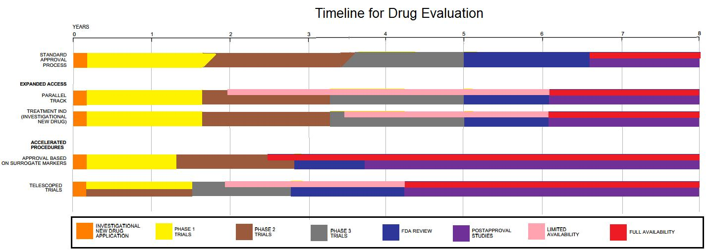 Graph showing the various approval tracks and research phases